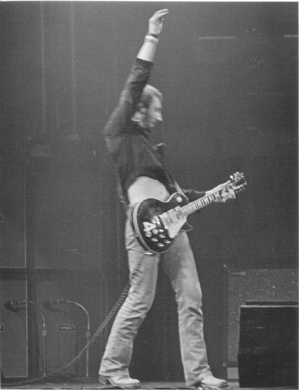 Some snaps taken years ago. Pete Townshend, The Who, Toronto Maple Leaf Gardens, Oct 1976